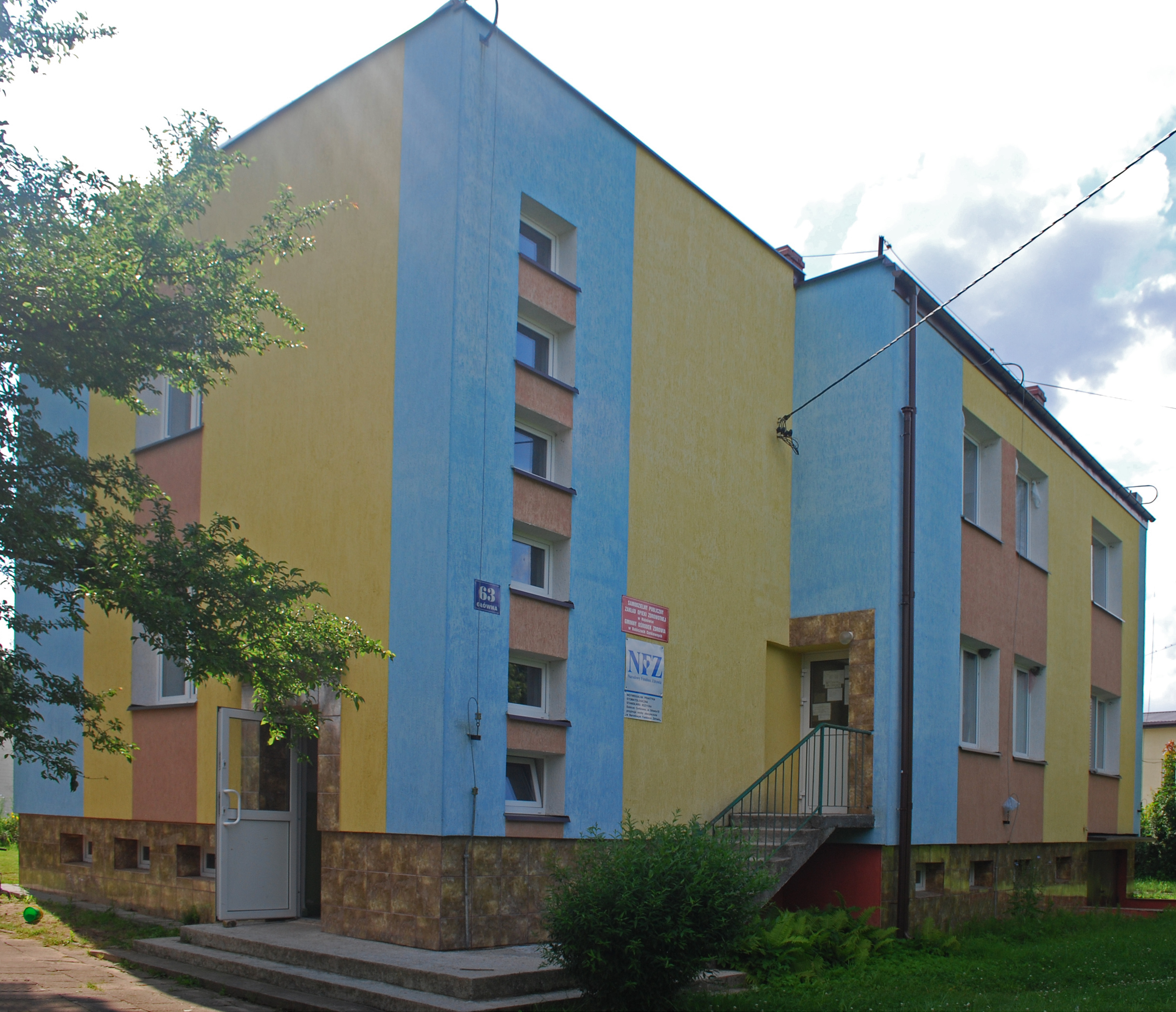 This photo from Podlaskie Voievodeship was taken during Polish Wikiexpedition 2009 set up by Wikimedia Polska Association. The making of this document was supported by Wikimedia Polska. PTSM i NFZ w Dubiczach Cerkiewnych